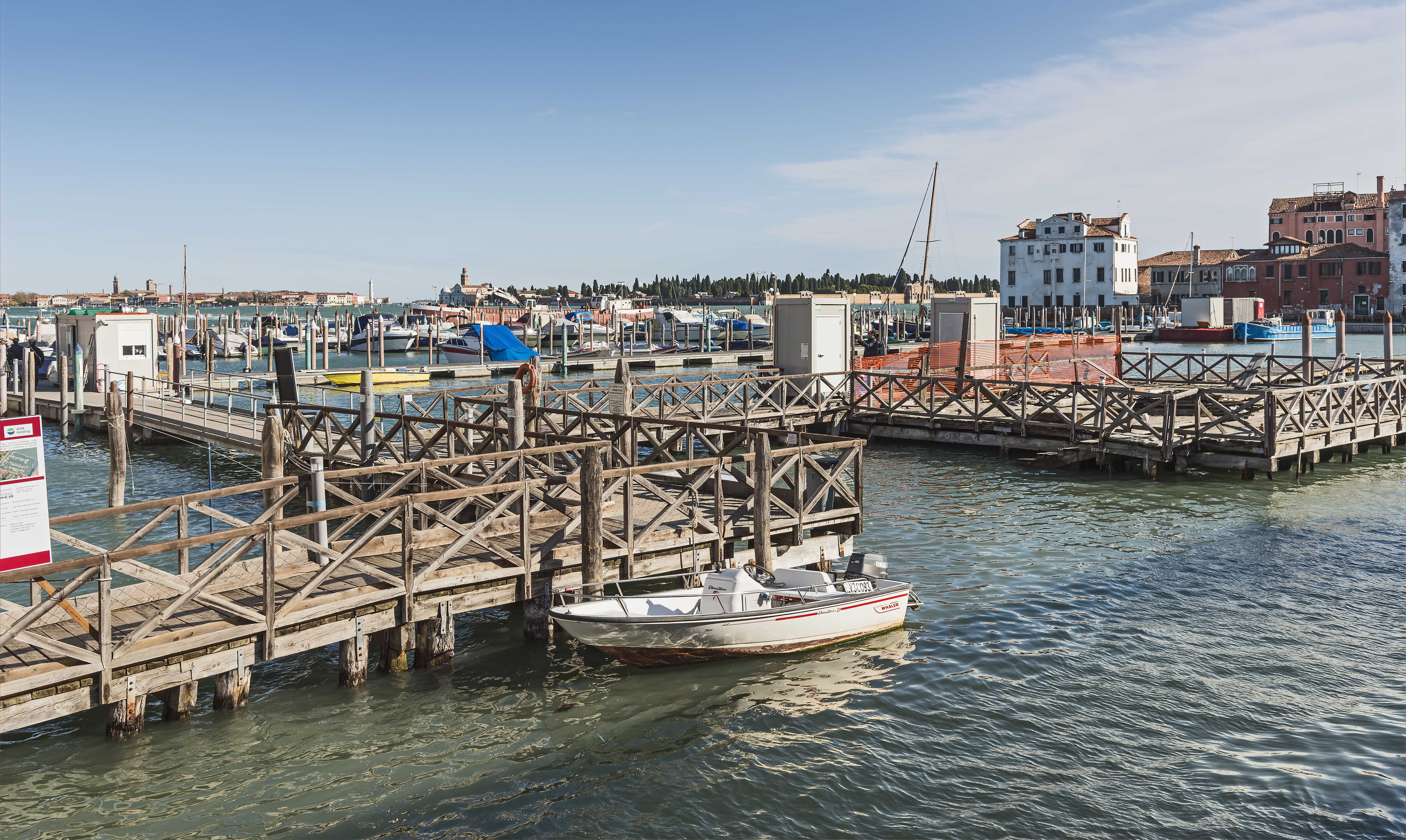 Sacca de la Misericordia viewed from Ponte de la Sacca - Venice